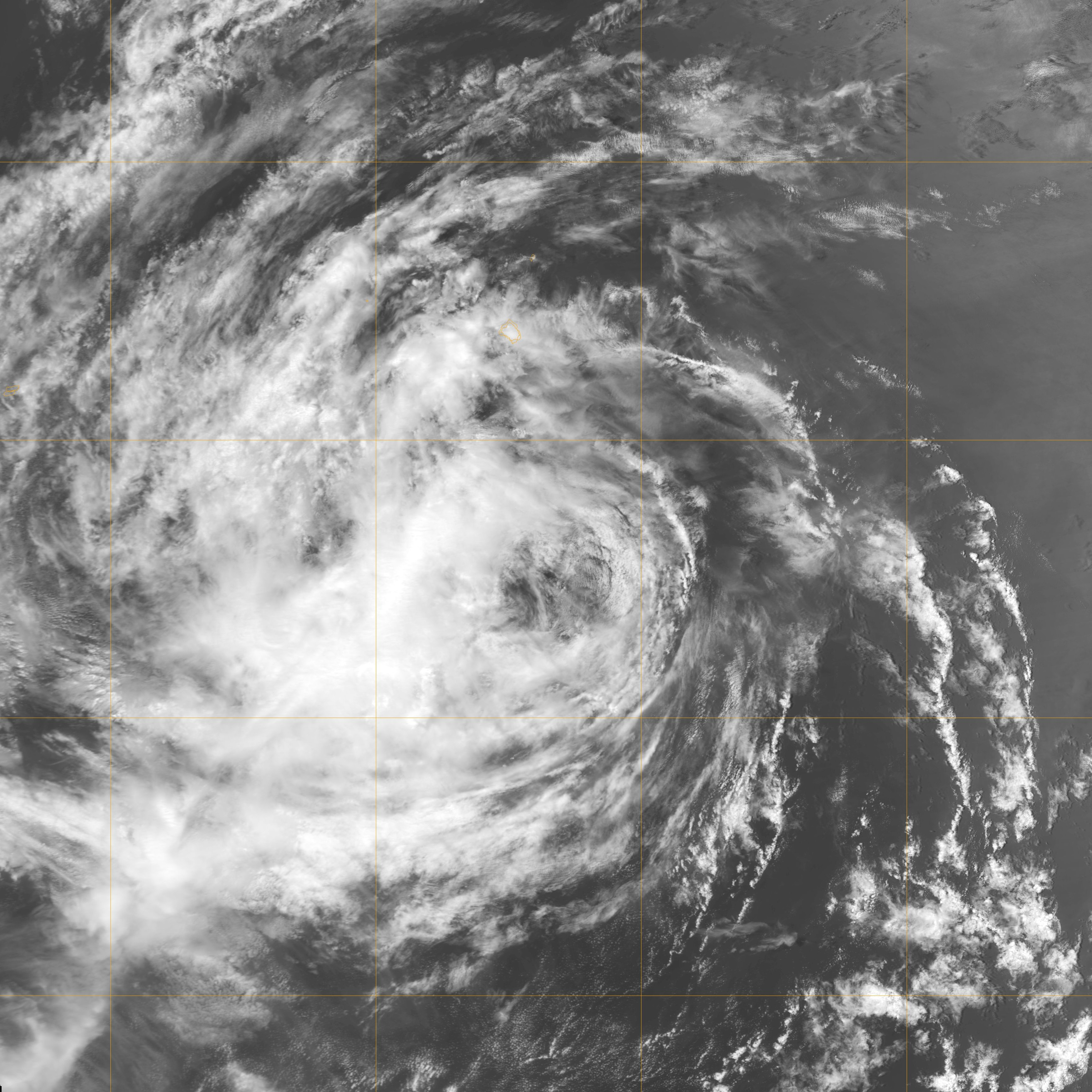 This image, captured by the MODIS instrument on NASA's Terra satellite, shows Tropical Storm Beatriz off of southern Mexico at 2020 UTC on June 23, 2005. The storm's maximum sustained winds were about 45 mph (75 km/h) and its minimum central pressure was 1000 mb.